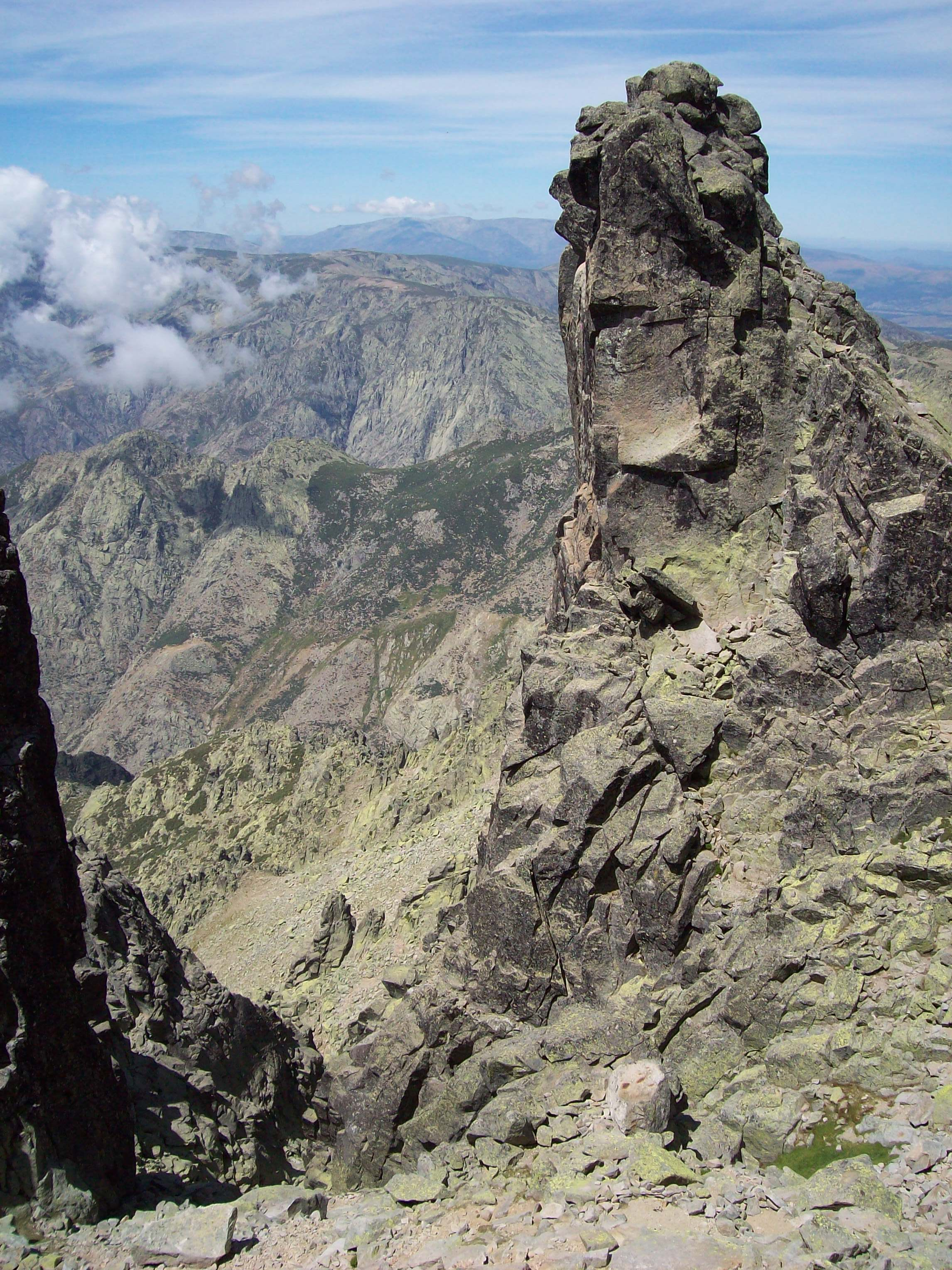 Cuerno del Almanzor, Sierra de Gredos, Spain.